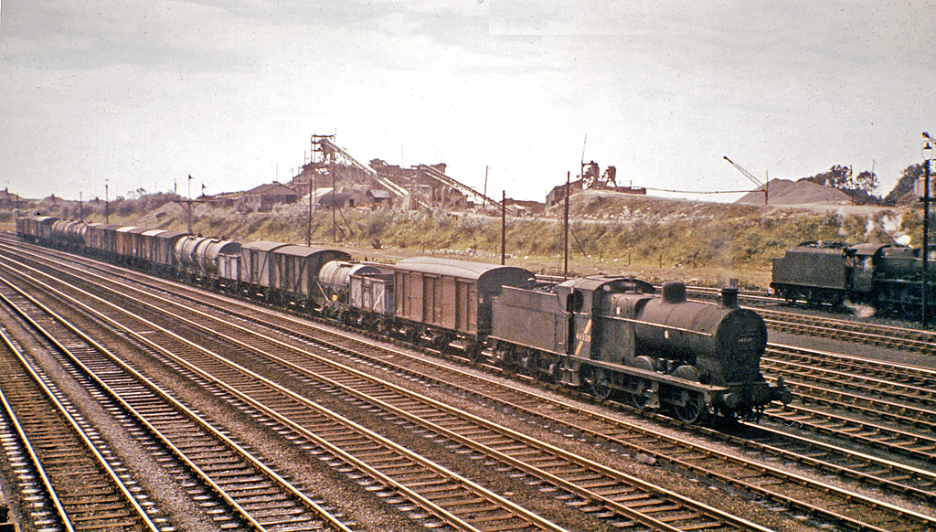 Down freight on the WCML approaching Carnforth. View SW, towards Lancaster, Preston and the South; ex-London & North Western West Coast Main Line. The train is on the Down Goods line and is headed by LMS 4F 0-6-0 No. 44300, which is carrying the prominent yellow stripes on the cabsides that all steam locomotives had to bear when working on the Western Division once main-line electrification began